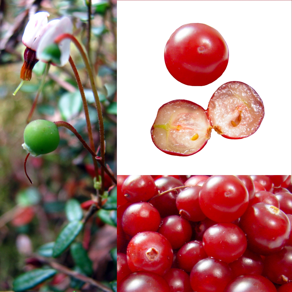 Cranberries, fruits of plant Vaccinium oxycoccos.